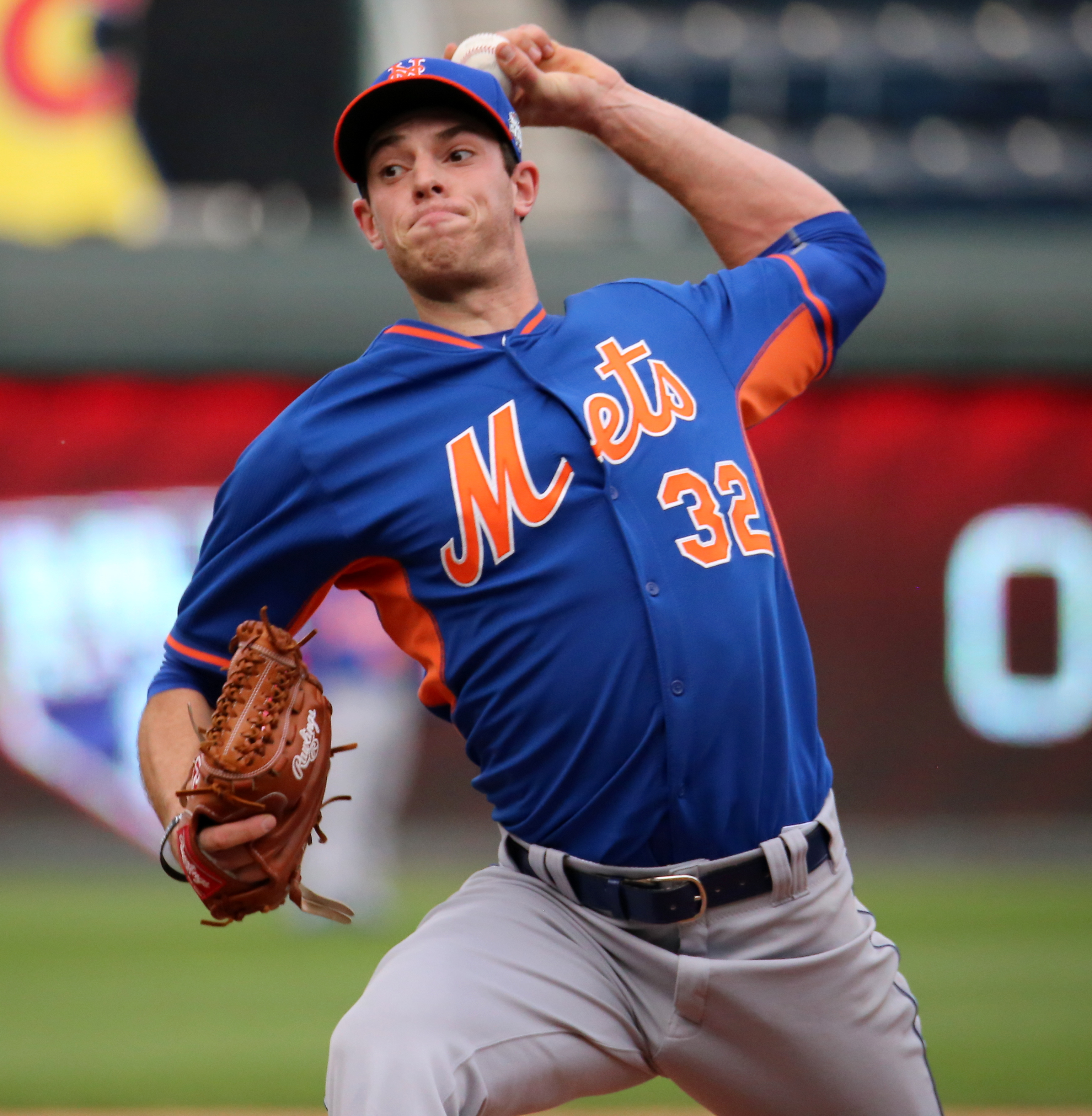 Steven Matz throws live batting practice on #WSMediaDay.